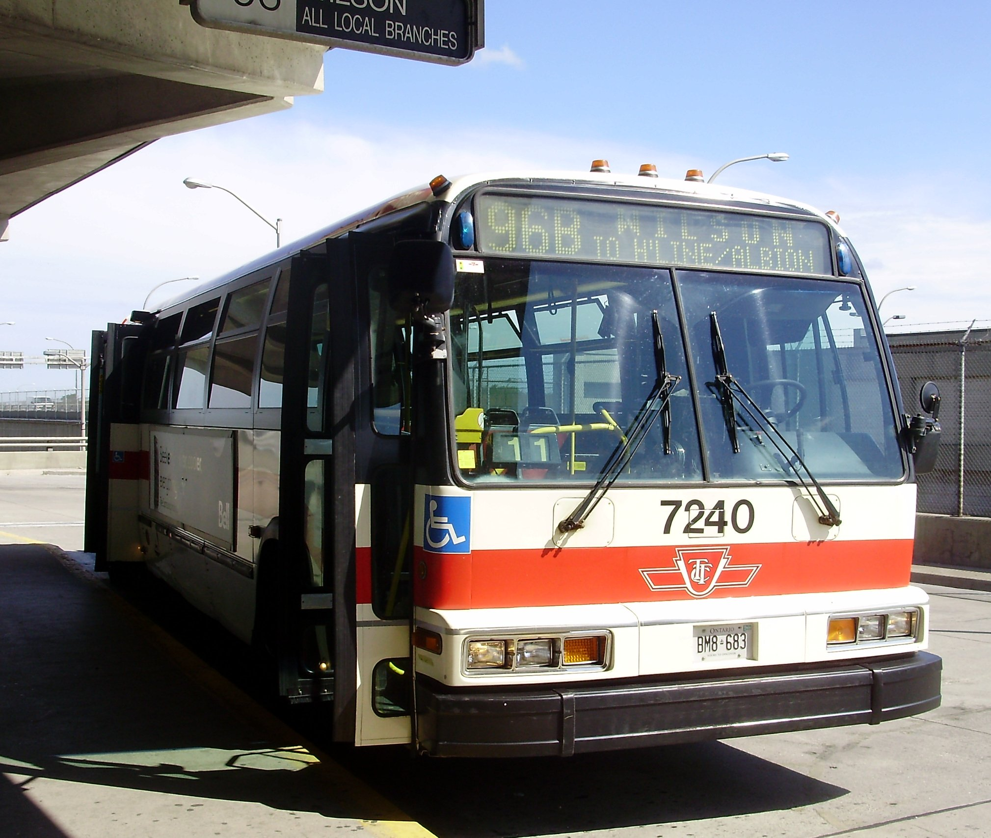 The Toronto Transit Commission's bus #7240, a NovaBus RTS T80206 WFD diesel bus, parked at Wilson station while serving the 96B Wilson route in North York, Ontario, Canada.